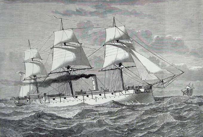 image of HMS Comus (1878); cropped version